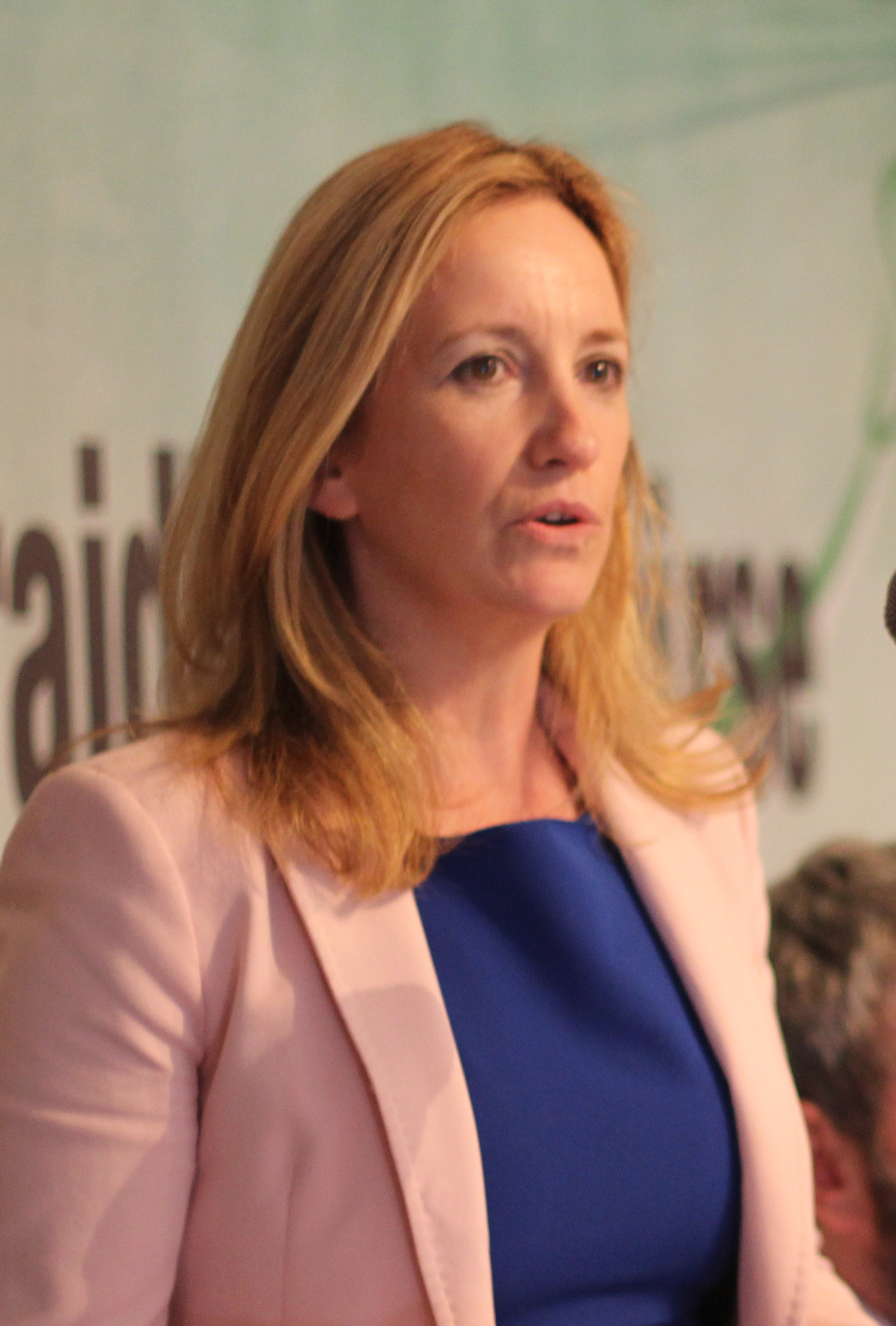 Gemma O'Donerty in 2014